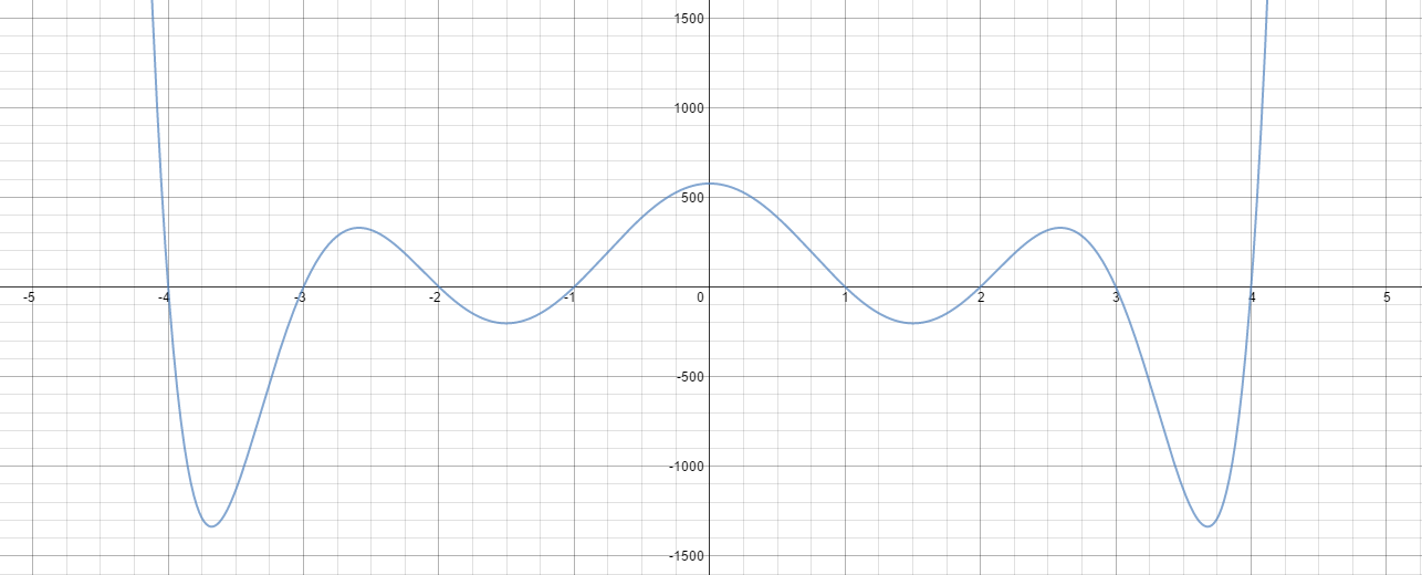 A plot of an even polynomial of degree 8 with 7 critical points. In the graph x {\displaystyle x} ranges from − 5.25 {\displaystyle -5.25} to 5.25 {\displaystyle 5.25} and y {\displaystyle y} from − 1600 {\displaystyle -1600} to 1600 {\displaystyle 1600} Equation: y = x 8 − 30 x 6 + 273 x 4 − 820 x 2 + 576 = ( x + 4 ) ( x + 3 ) ( x + 2 ) ( x + 1 ) ( x − 1 ) ( x − 2 ) ( x − 3 ) ( x − 4 ) {\displaystyle y=x^{8}-30x^{6}+273x^{4}-820x^{2}+576=(x+4)(x+3)(x+2)(x+1)(x-1)(x-2)(x-3)(x-4)}